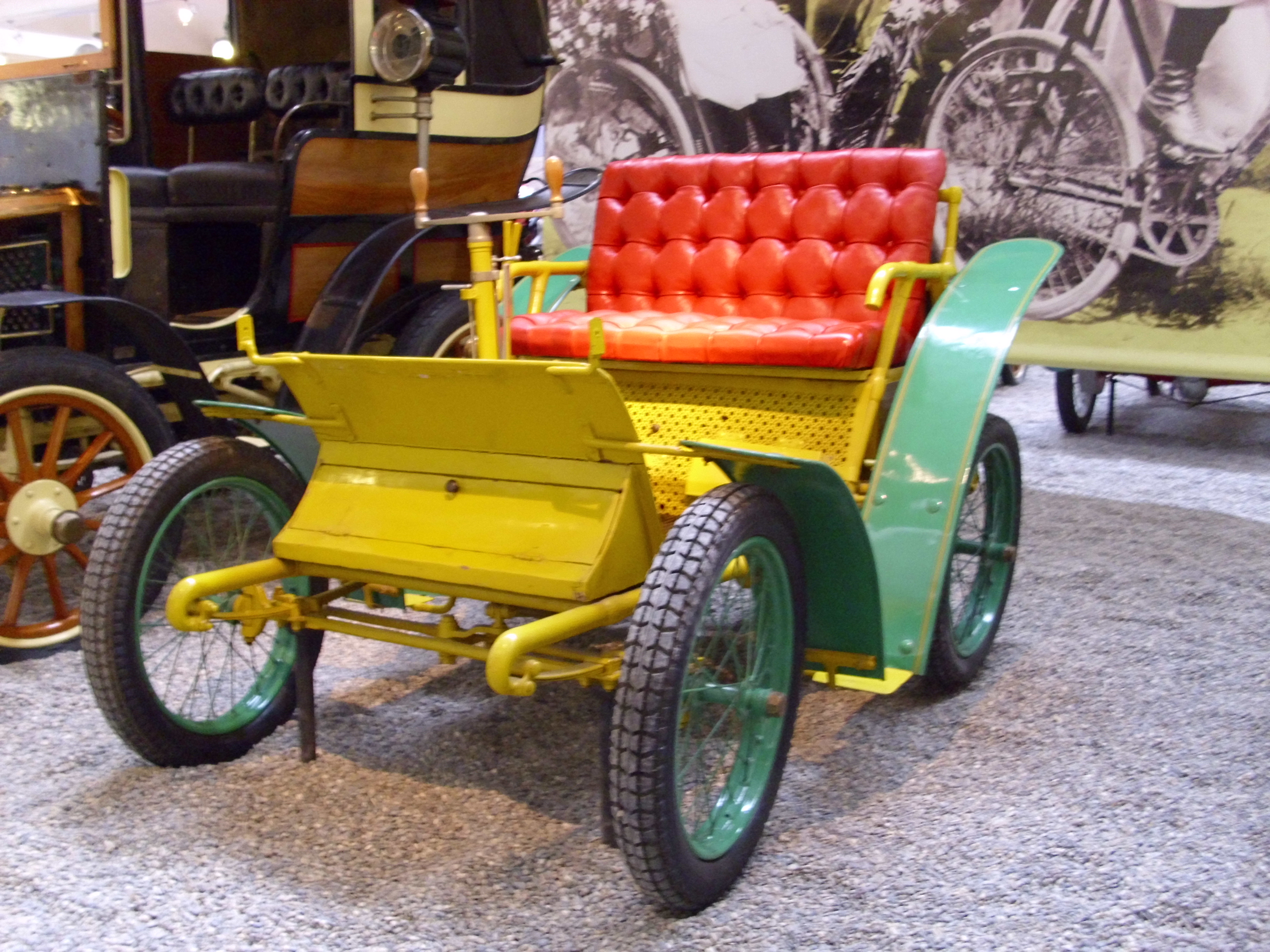 Esculape 1899. (The car's museum placard misdates it; see Category:1899 Esculape in the Musée National de l'Automobile for details.)